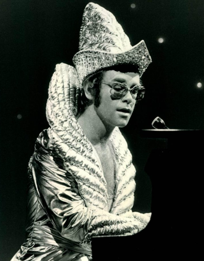 Publicity photo of Elton John from the Cher Show.